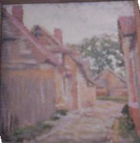 Gennevilliers, painted by Lucy Bacon (1857-1932) under tutelage of Camille Pissarro circa 1895. Photo from painting in private collection.